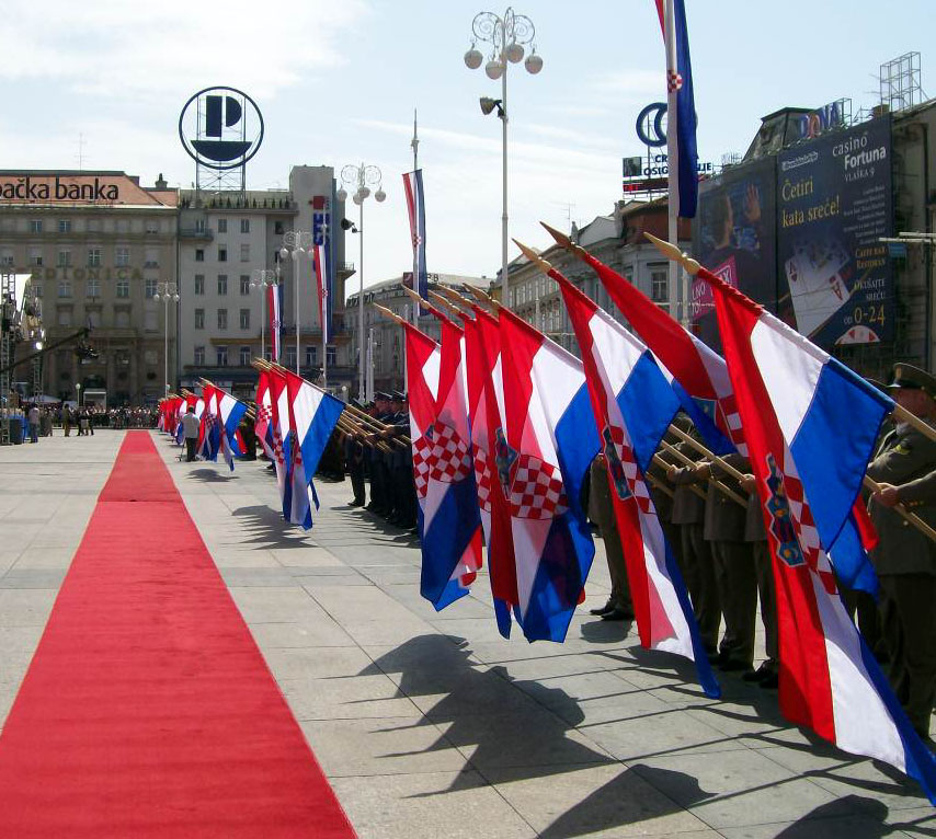 Celebrating the Statehood Day (2007)